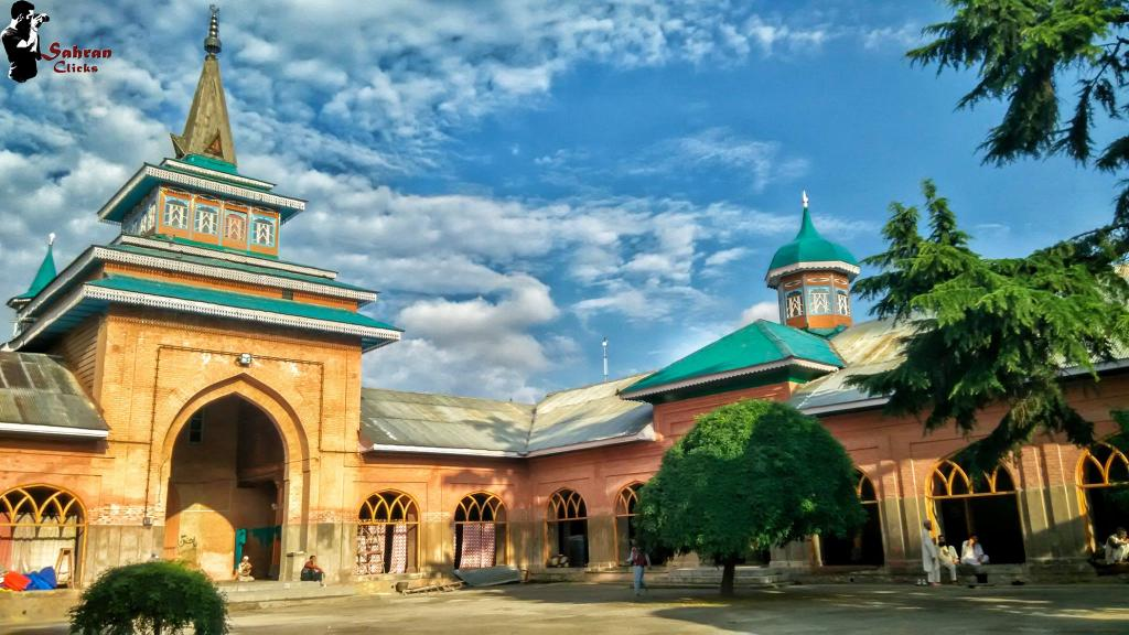 JAMIA MASJID SHOPIAN This hsitoric mosque was built by Mughal Emperor Aurangzeb Alamgir